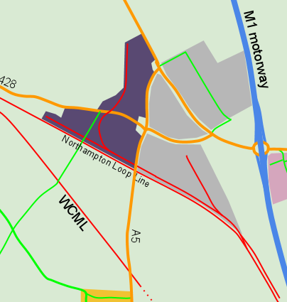 drawing of Daventry International Rail Freight Terminal (DIRFT) created using information from open street map (traced) as well as information from named "Daventry International Rail Freight Terminal Design Guide Sustainability Appraisal December 2005 " specifically forward looking information page 5 "Figure 1 - Site Location Plan"